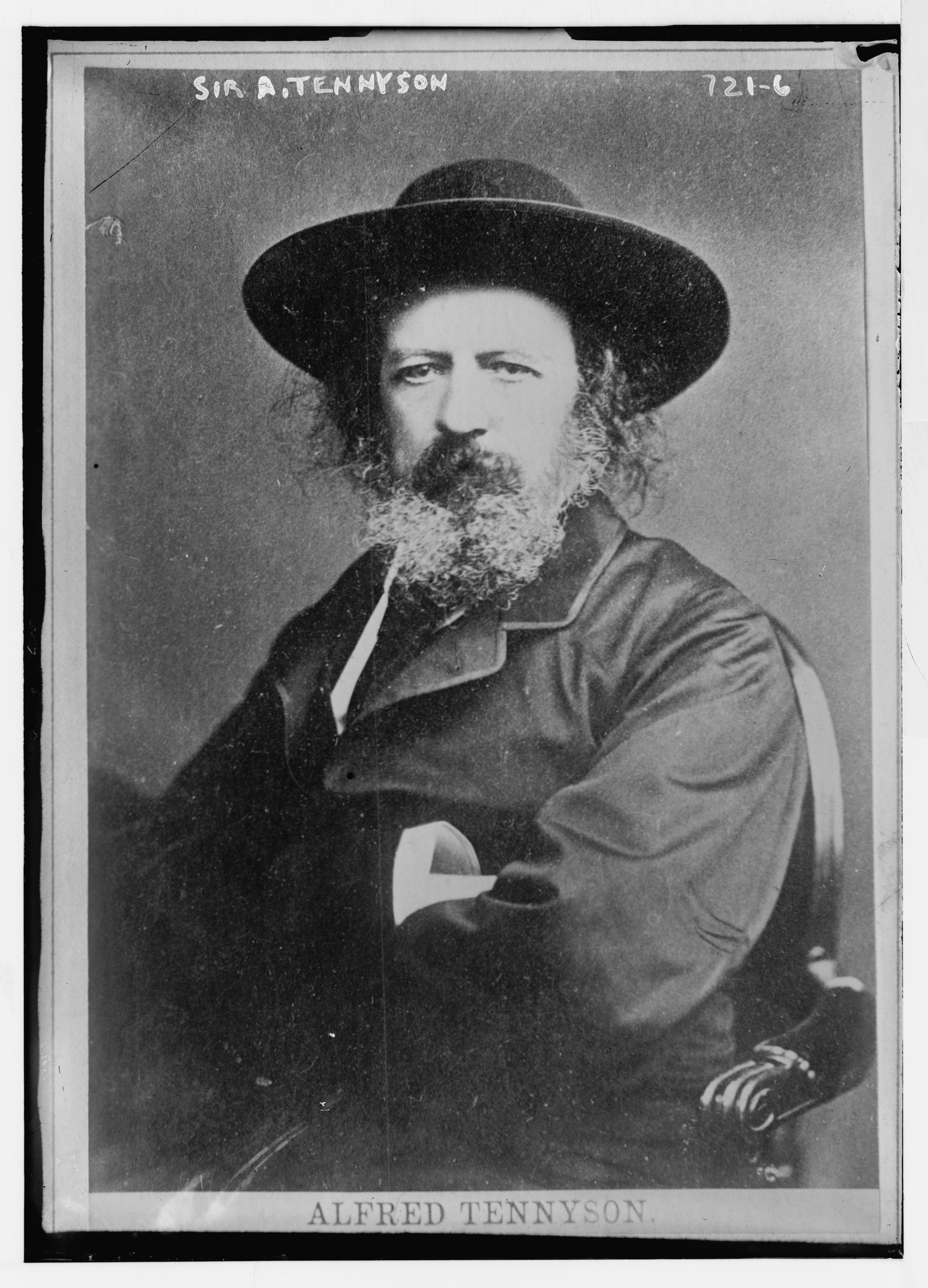 Title: Sir Alfred Tennyson Abstract/medium: 1 negative : glass ; 5 x 7 in. or smaller.